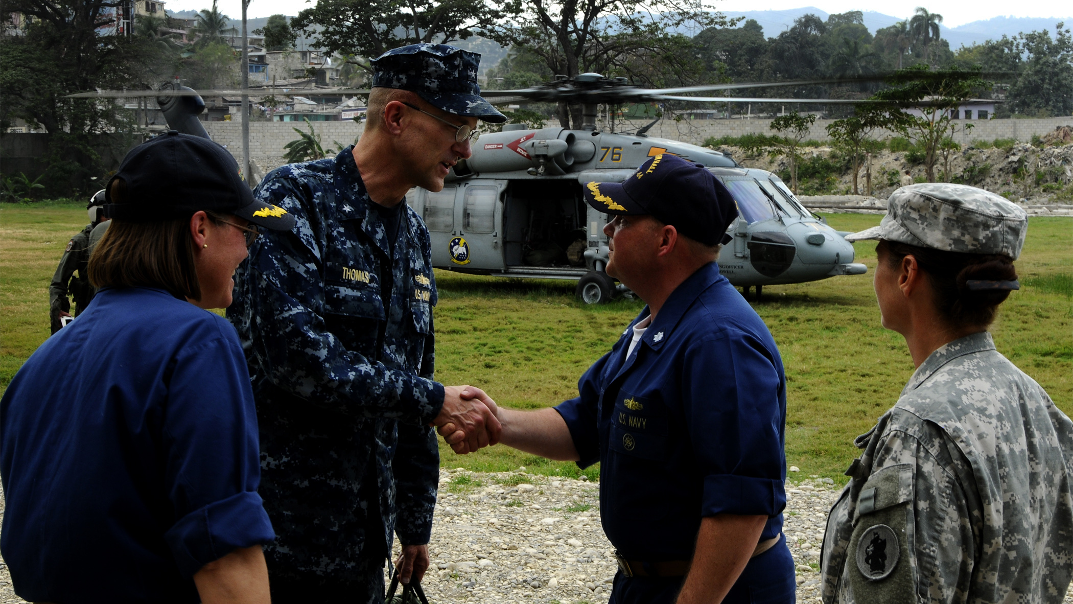 Rear. Adm. David Thomas, Commander, Task Force 41, shakes hands with Cmdr. Fred Wilhelm, Commanding Officer of USS Gunston Hall, as Capt. Cindy Thebaud, left, Commander, Africa Partnership Station West, and Col. Marie Dominguez, right, Commander, Joint Task Force Bravo (Medical Element), look on. Thomas came to the Killick Haitian Coast Guard Base here to get a briefing and a tour of the facility. Gunston Hall was diverted from its Africa Partnership Station mission to assist with relief efforts for Operation Unified Response following a 7.0 earthquake that struck Haiti, Jan. 12.